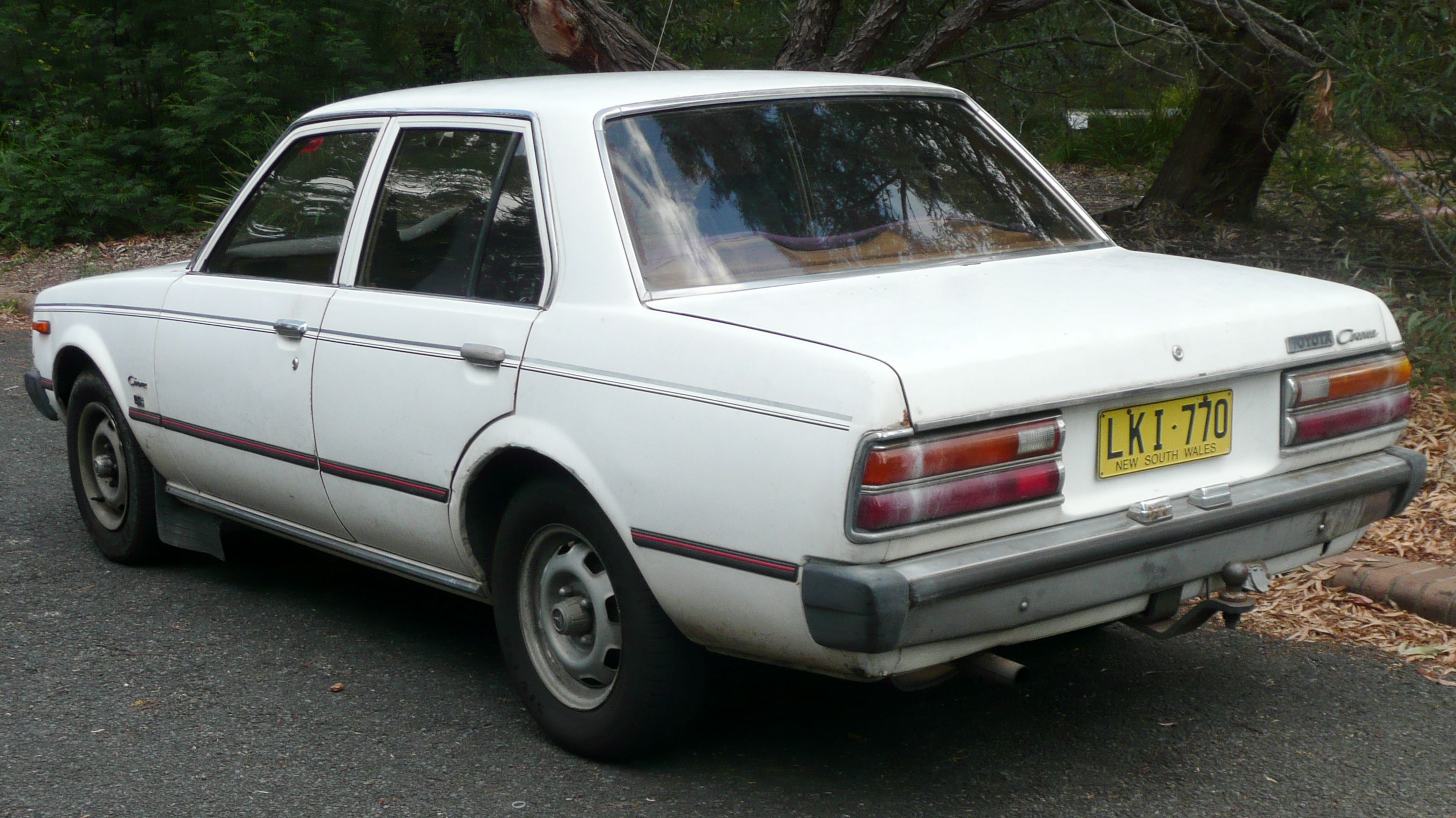 1981 Toyota Corona (XT130) CS sedan. Photographed in Audley, New South Wales, Australia.